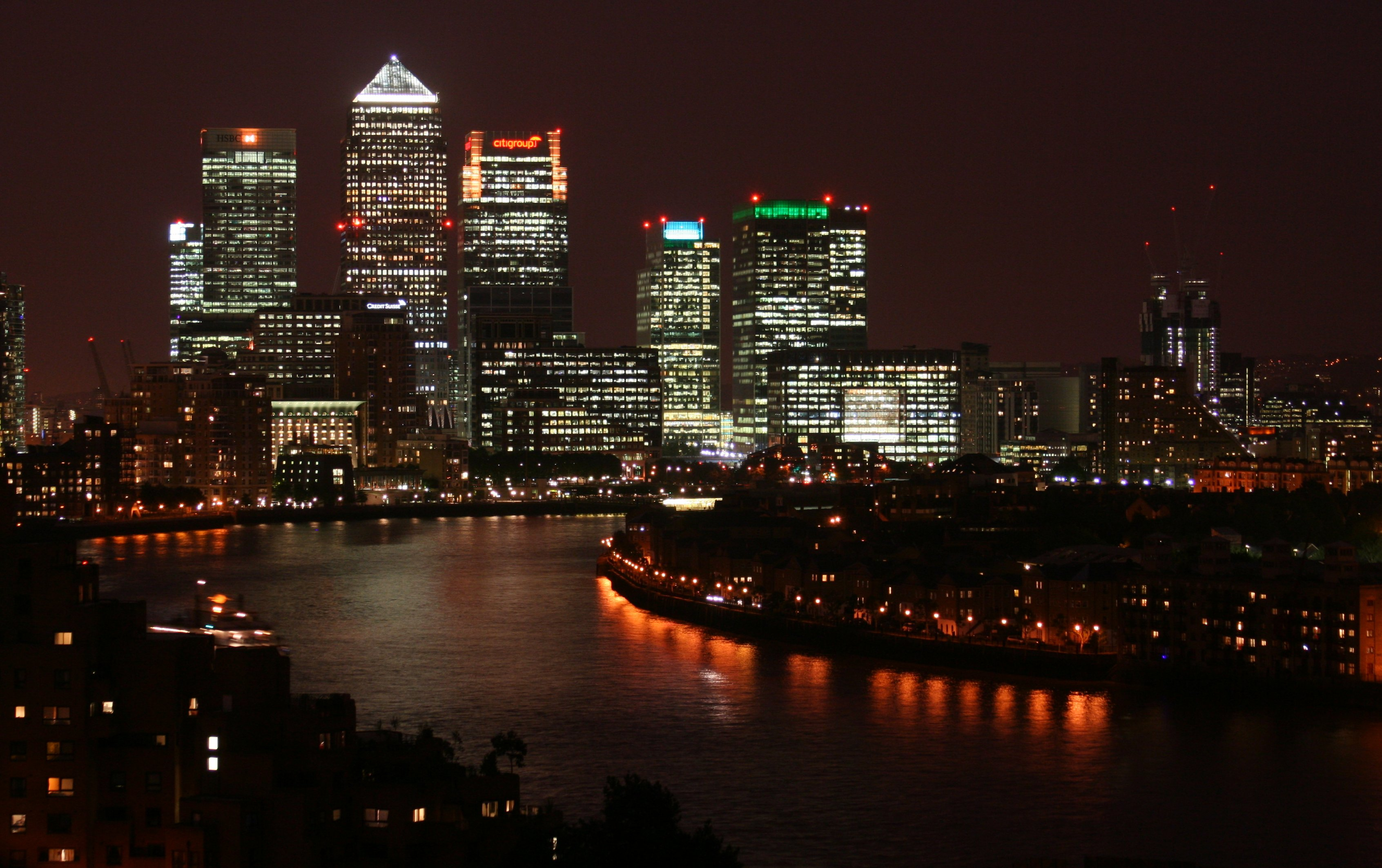 Canary Wharf at night, viewed from Shadwell.